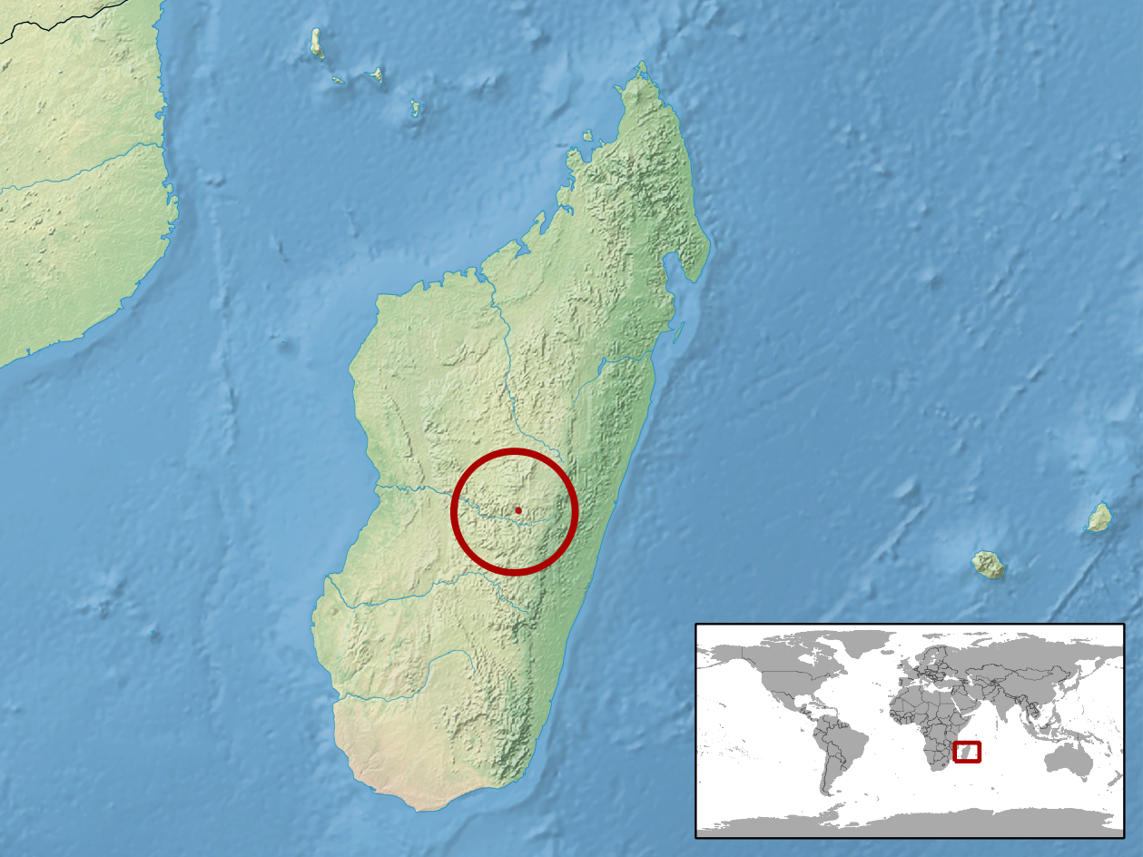 geographic distribution of Lygodactylus blanci (Native: Madagascar)